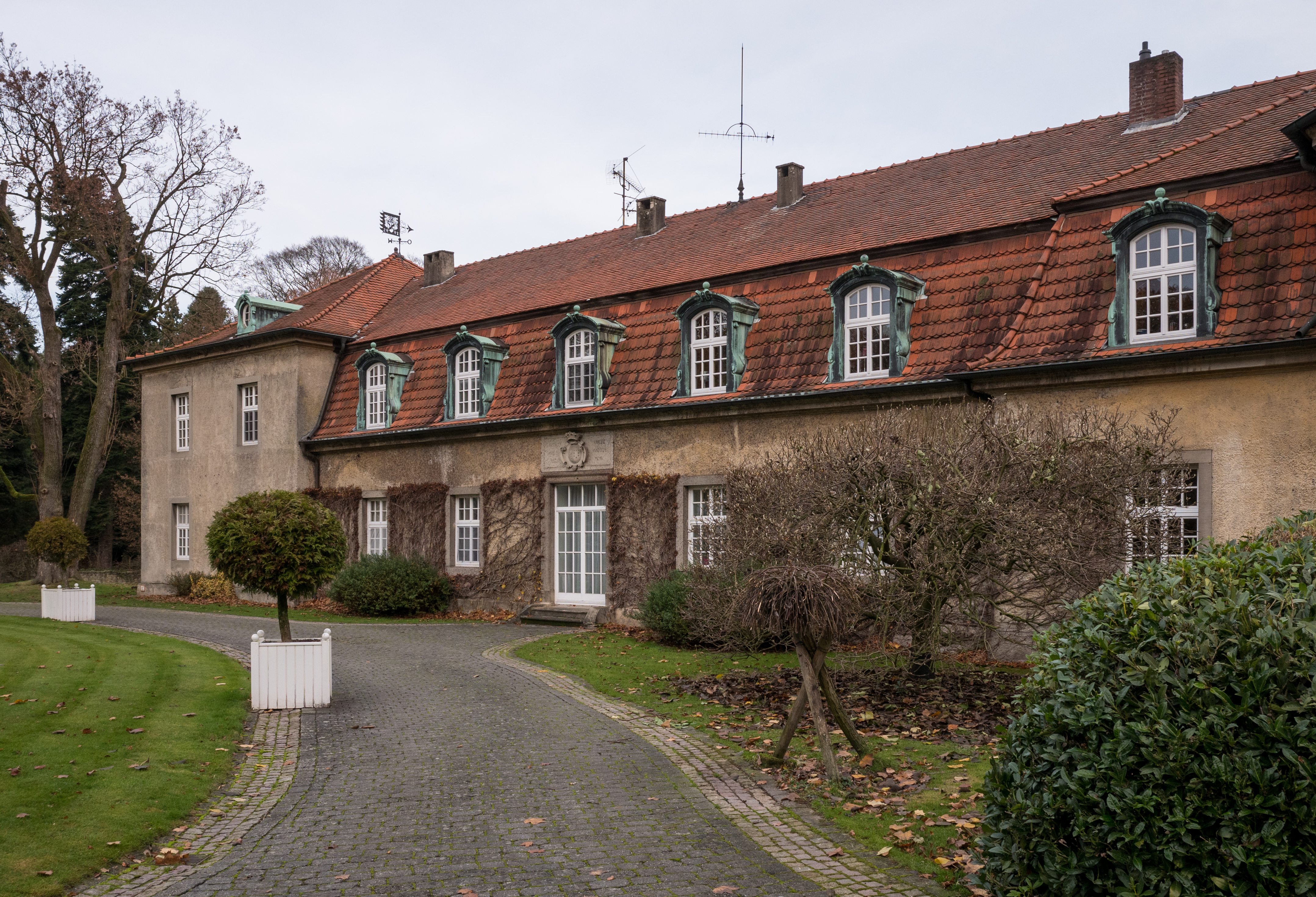 Estate Gut Leye, eastern side building. Osnabrück-Atter, Lower Saxony, Germany